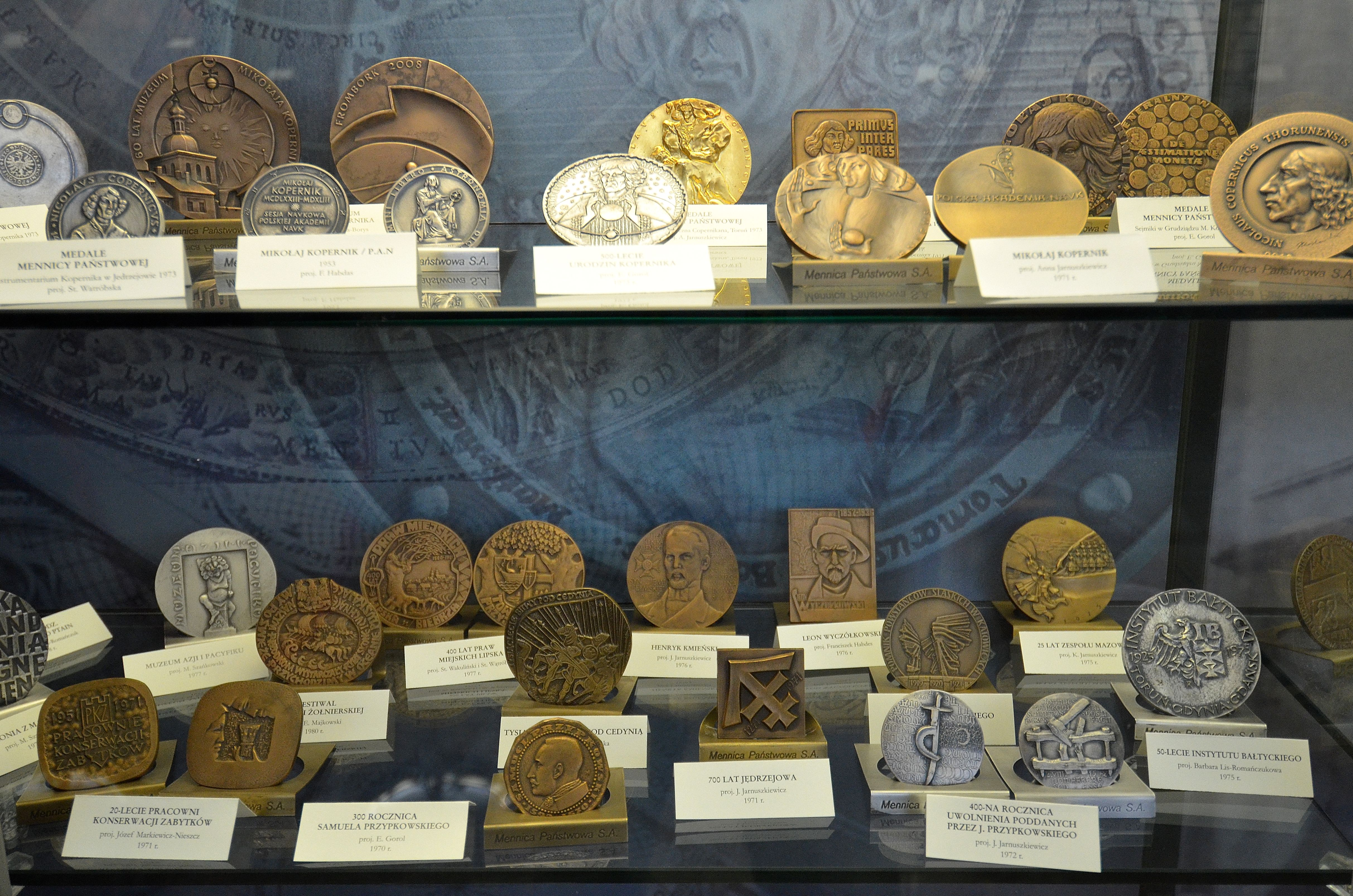 Numismatic Cabinet of the Mint of Poland at 11 Waliców Street in Warsaw